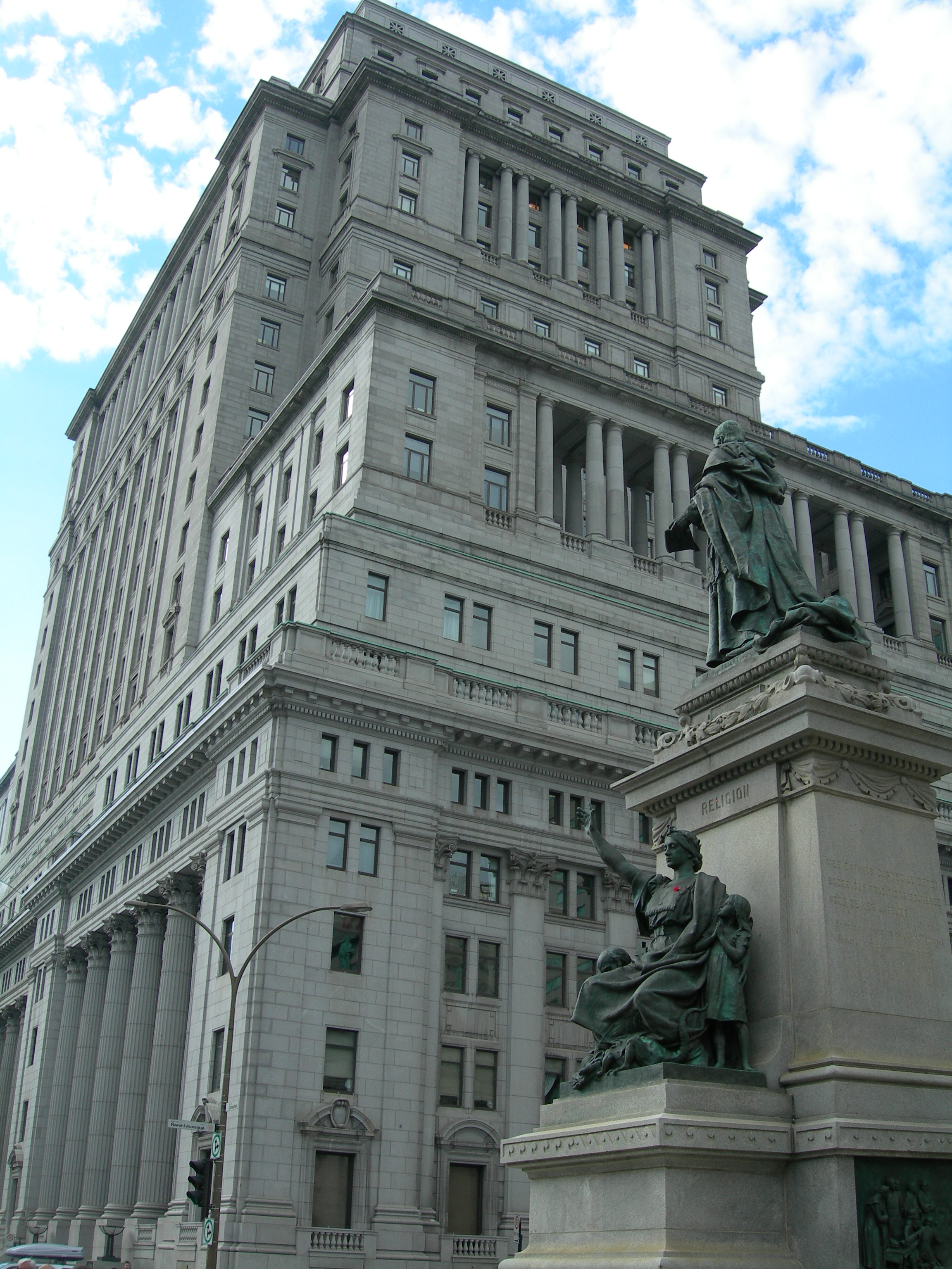 Sun Life Building, Montreal, QC, Canada